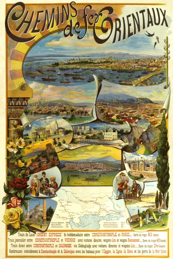 Poster of the CFO Orient-Express Constantinople - Paris, 63h